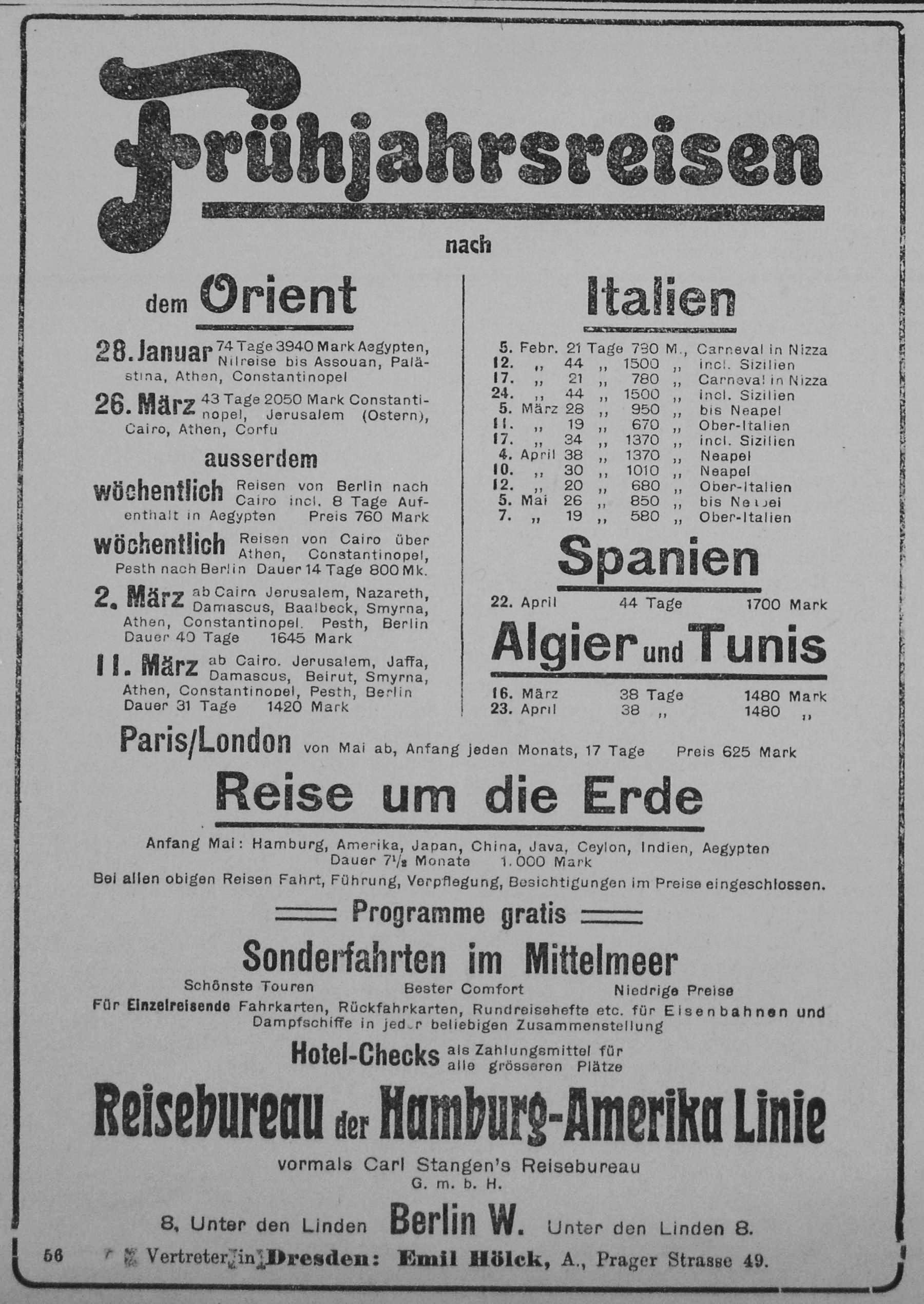 Scan from the Dresdner Journal, 1906